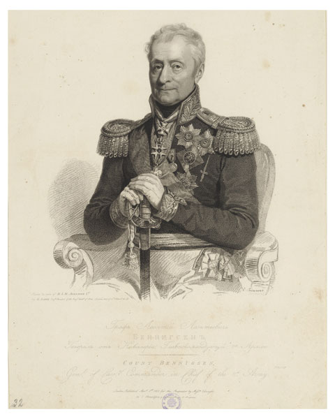 portrait leonty bennigsen